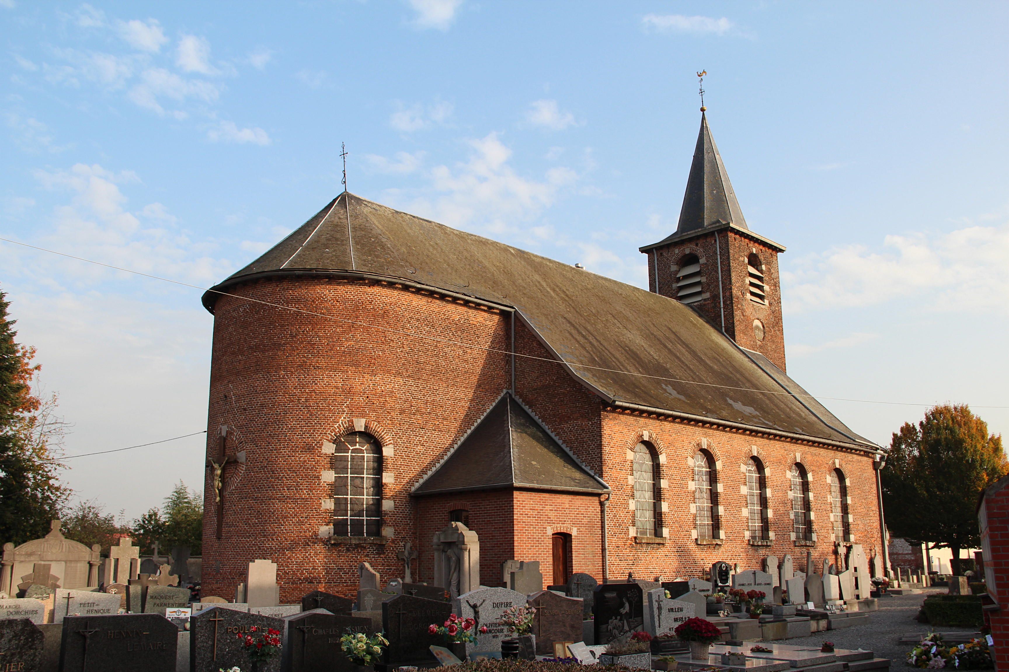 Esplechin (Belgium), the Saint Martin's church (XVIIIth cetury).